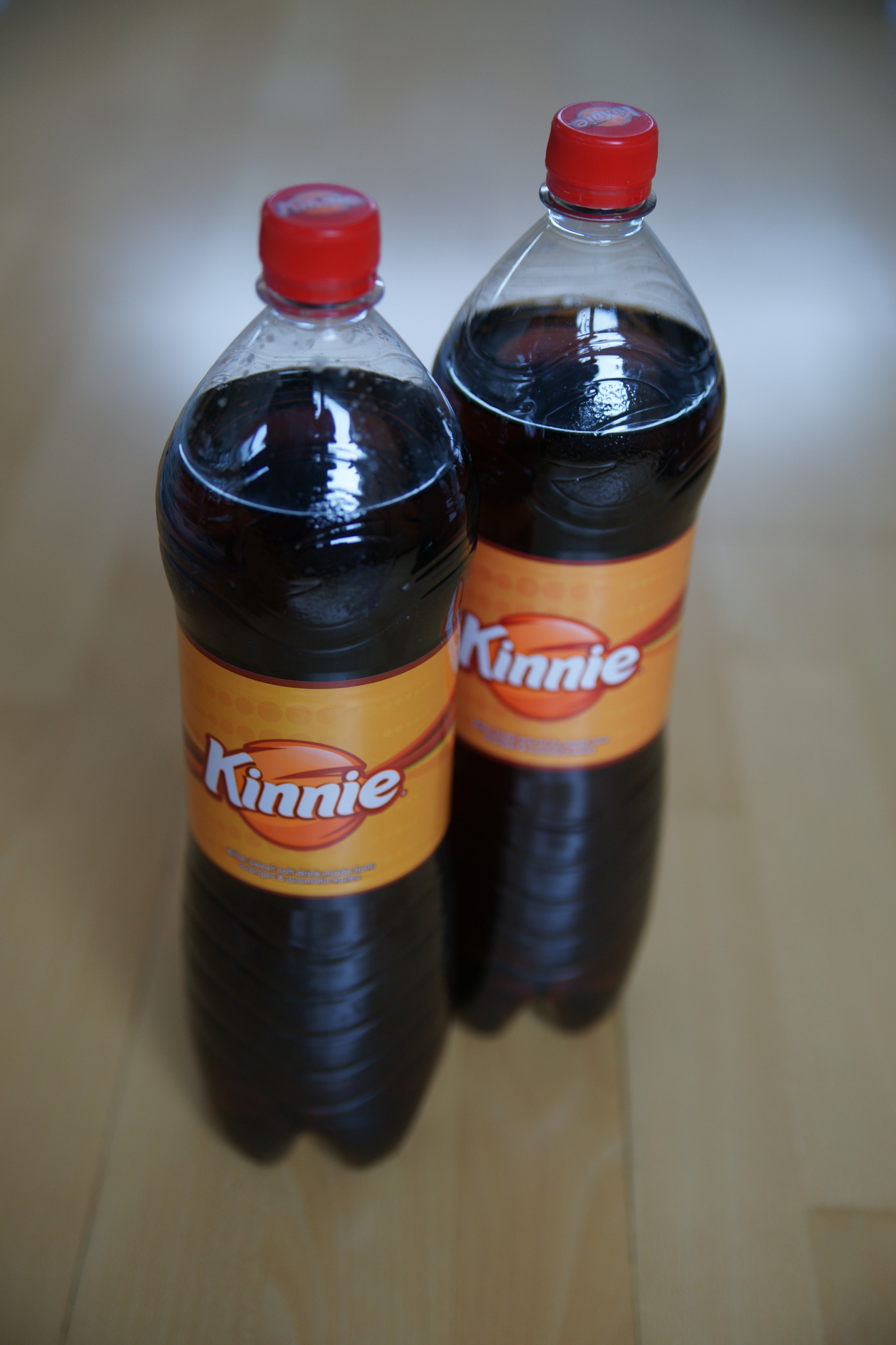 Kinnie - Malta's national drink